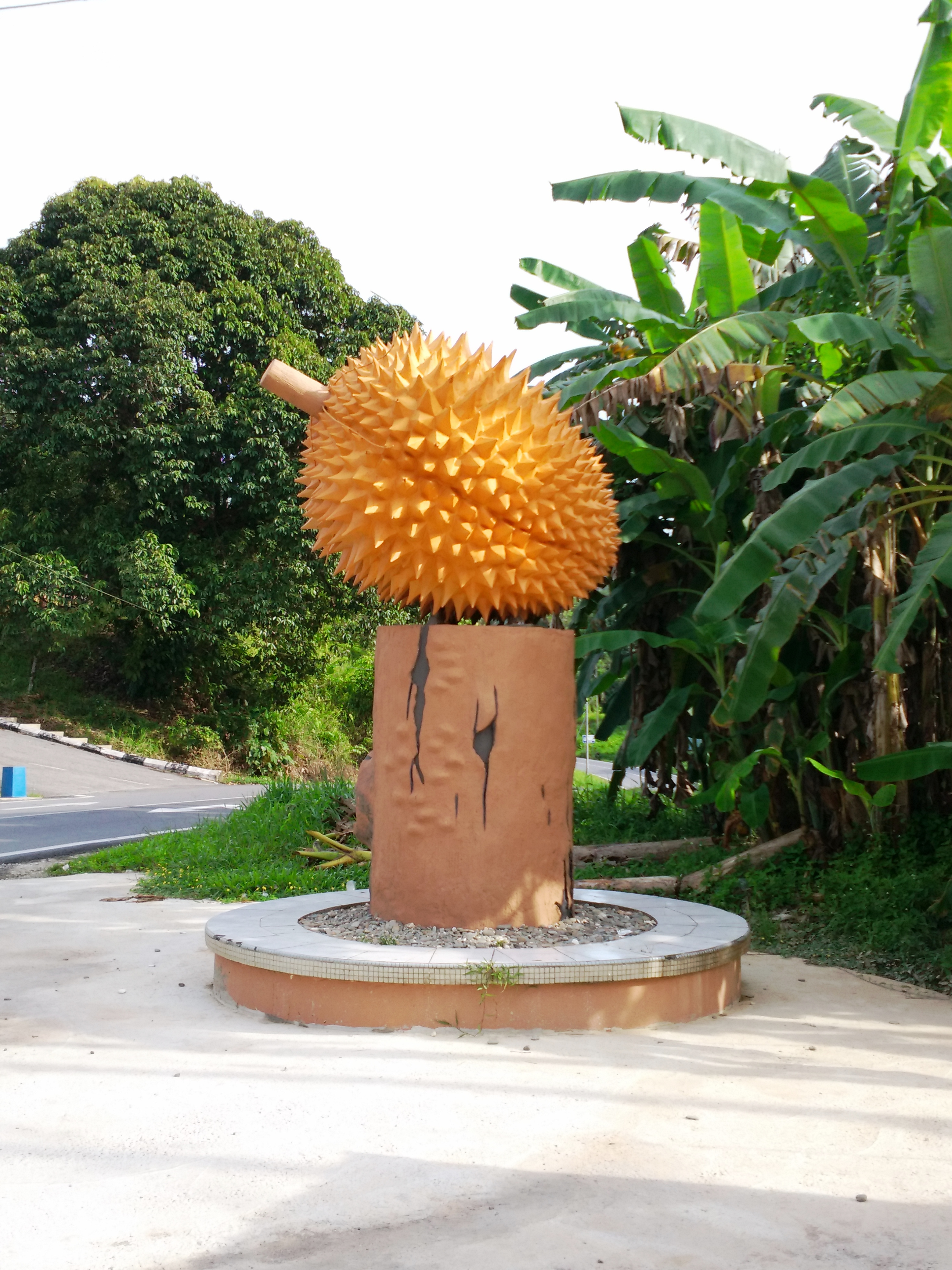 Replica of Buah Pakan at Pakan Entabai road